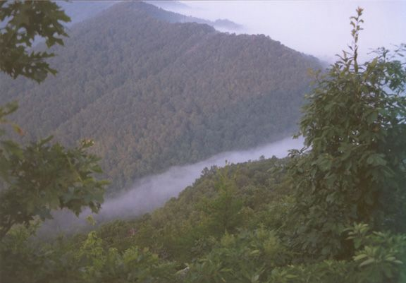 This is a shot of the Gap from the pinnacle. The fog was rolling rapidly through the Gap that morning and it looked like a flow of milk through the mountains. At the Pinnacle at Cumberland Gap National Historic Park.